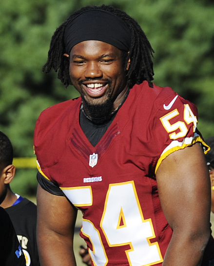 Washington Redskins linebacker Darryl Tapp assists in a football drill during the Salute to Play 60 Military Challenge at Joint Base Andrews, Md., Sept. 24, 2013. The initiative is part of the National Football League’s larger Play 60 campaign, which is designed to encourage kids to be active for 60 minutes a day to help reverse the trend of childhood obesity. (U.S. Air Force photo/ Airman 1st Class Nesha Humes)